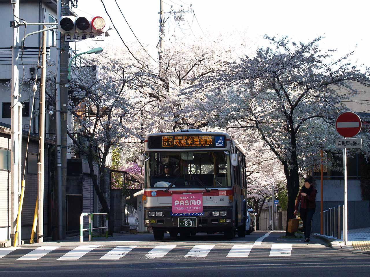 Tokyu Bus Toritsu 01 route (between Toritsu-Daigaku station and Seijo-Gakuen-mae station) is stopping at Route 246 crossing in Fukasawa. Model: Nissan Diesel KL-JP252NAN License plate: TKS200 KA-891（品川200か・891） Place: Fukasawa, Setagaya ward, Tokyo Japan 都立大学～桜新町～成城間を結ぶ東急バス都立01系統。国道246号線（玉川通り）から南の深沢地区では春になると桜並木の中を通る。 型式：日産ディーゼルKL-JP252NAN 登録番号：品川200か・891